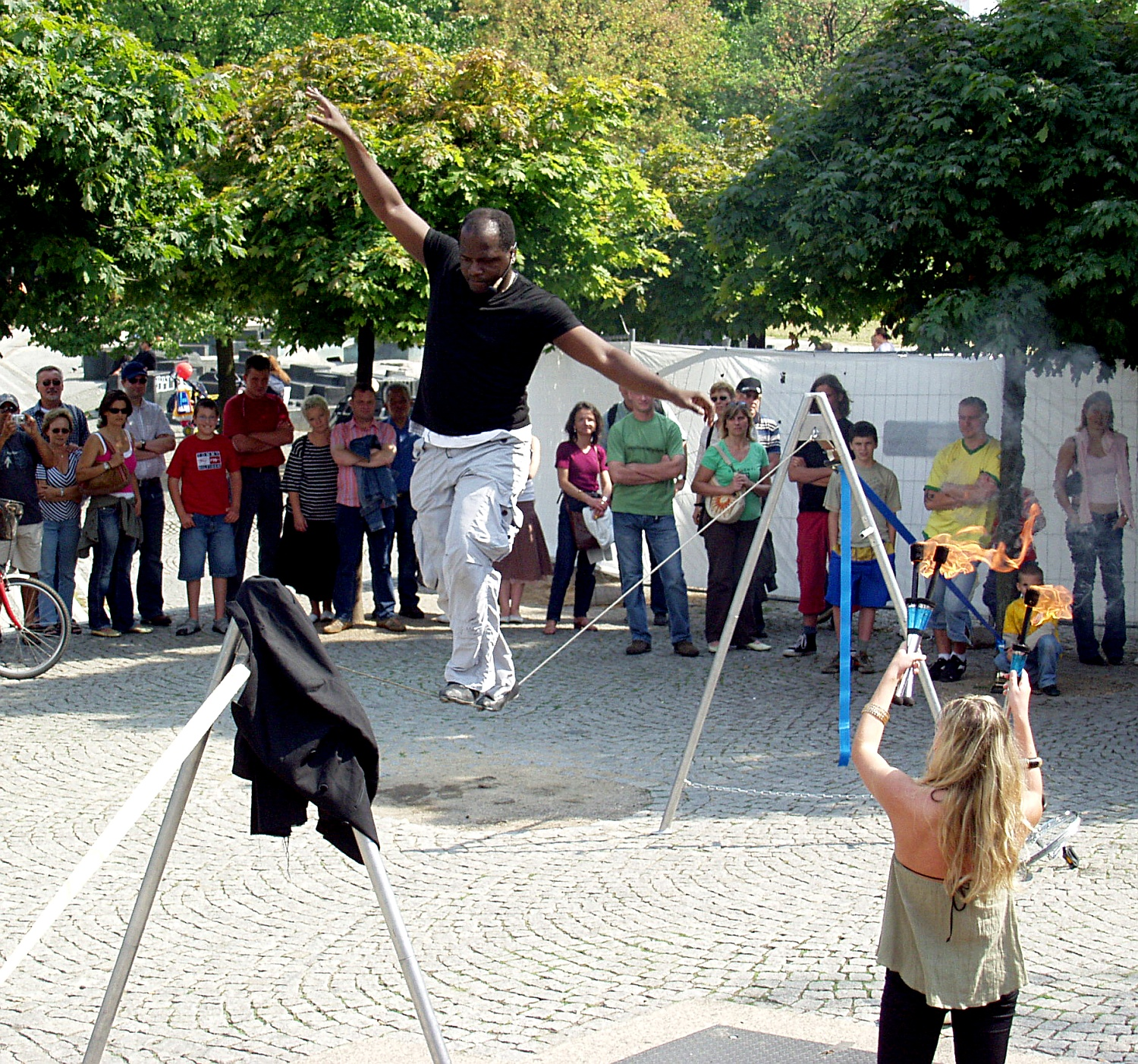 Tightrope artist in Cologne, Germany